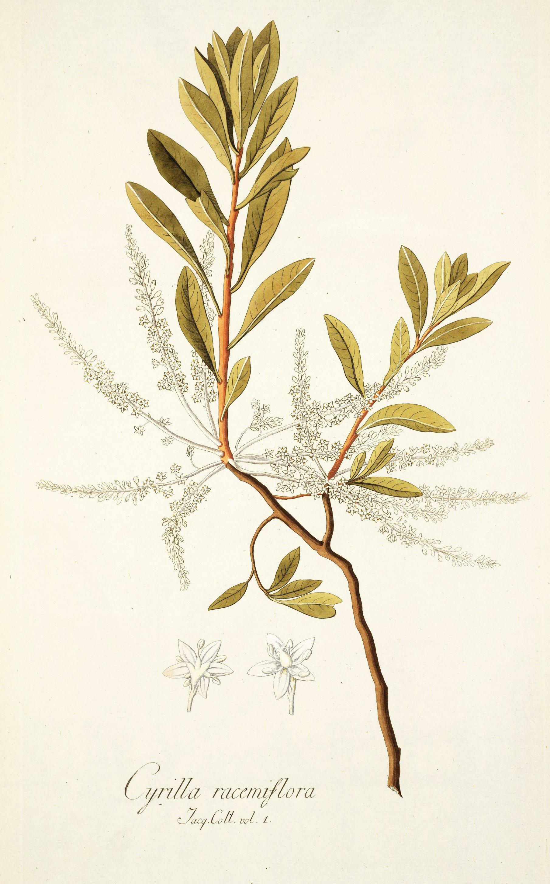 Illustration of Cyrilla racemiflora.